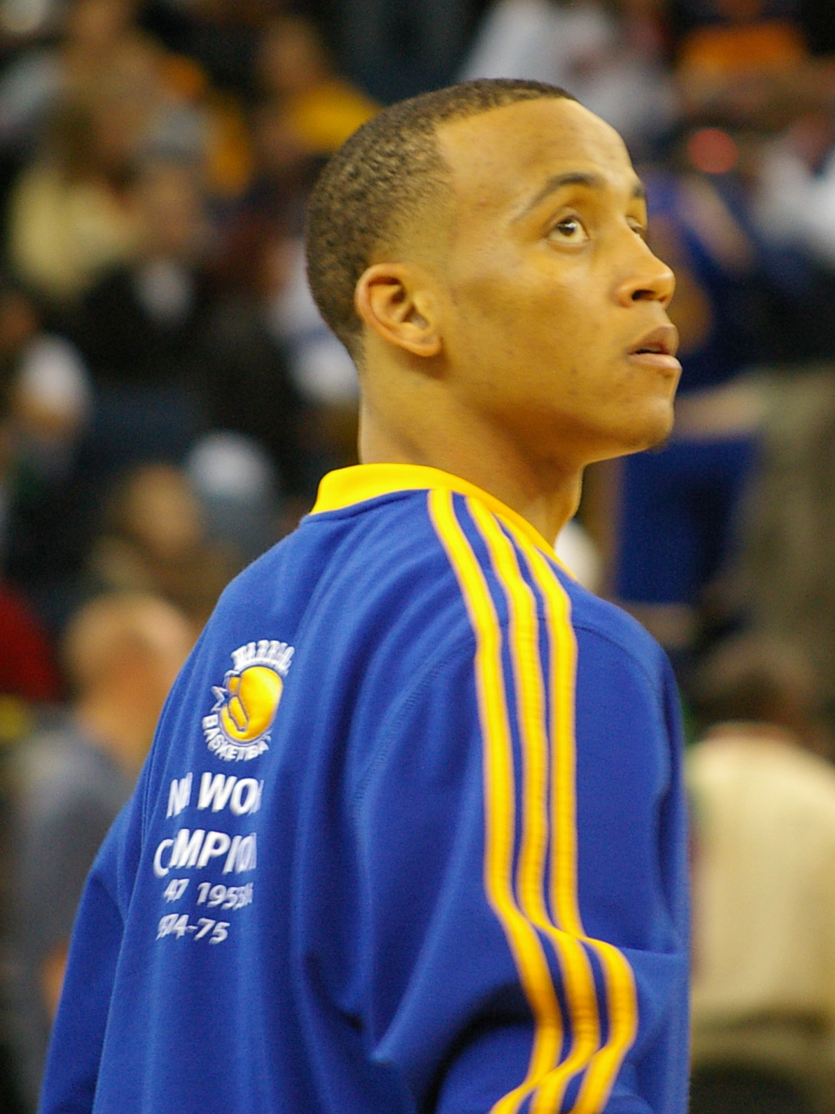 Monta Ellis of the Golden State Warriors, during the 2007–08 season This file has been extracted from another file: (BW in need of nickname) & Monta.jpg